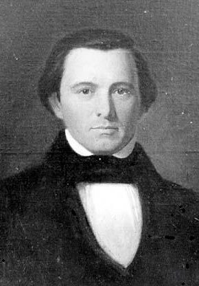 George W. Summers, US Representative from Virginia